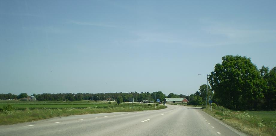 E22 highway outside the village Norje in Blekinge, Sweden